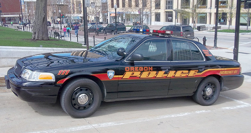 police in oregon wi